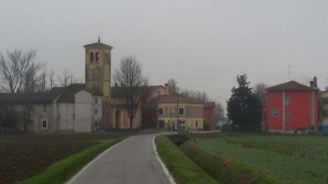 Palasone village